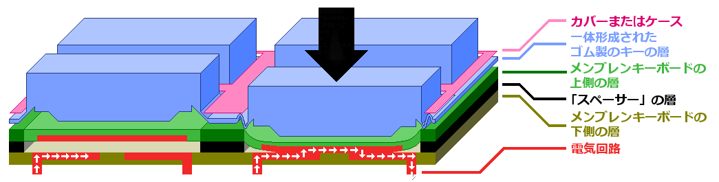 Chiclet keyboard